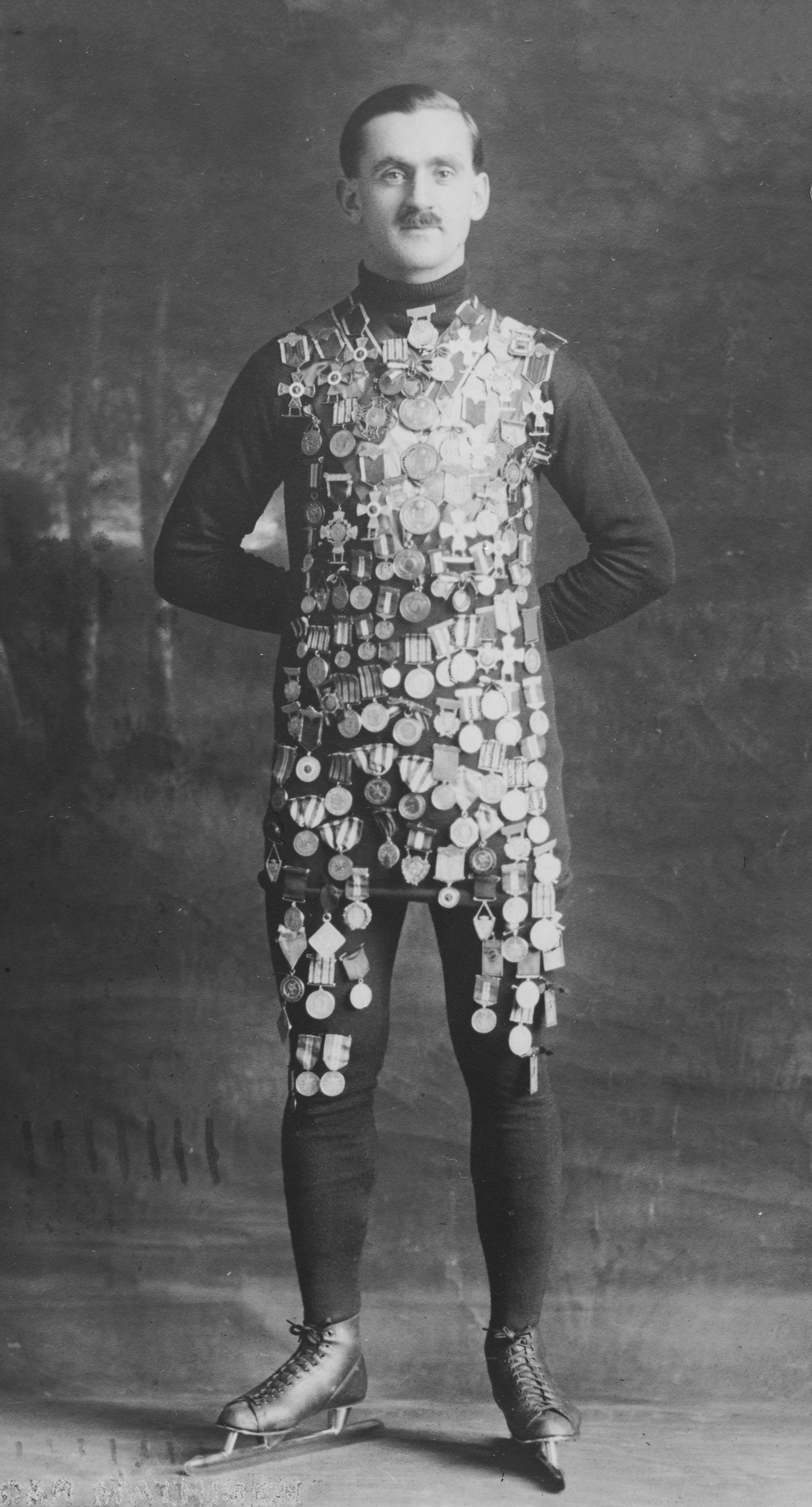 Oscar Mathisen